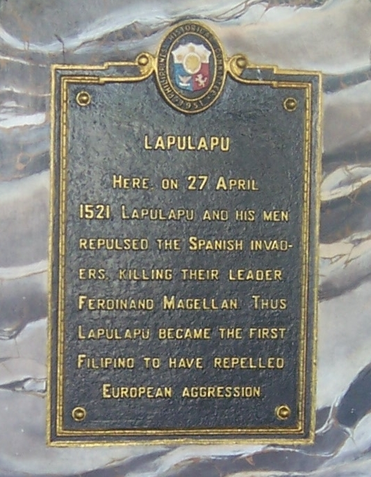 Lapulapu inscription at Lapu-lapu Monument, Mactan, Cebu